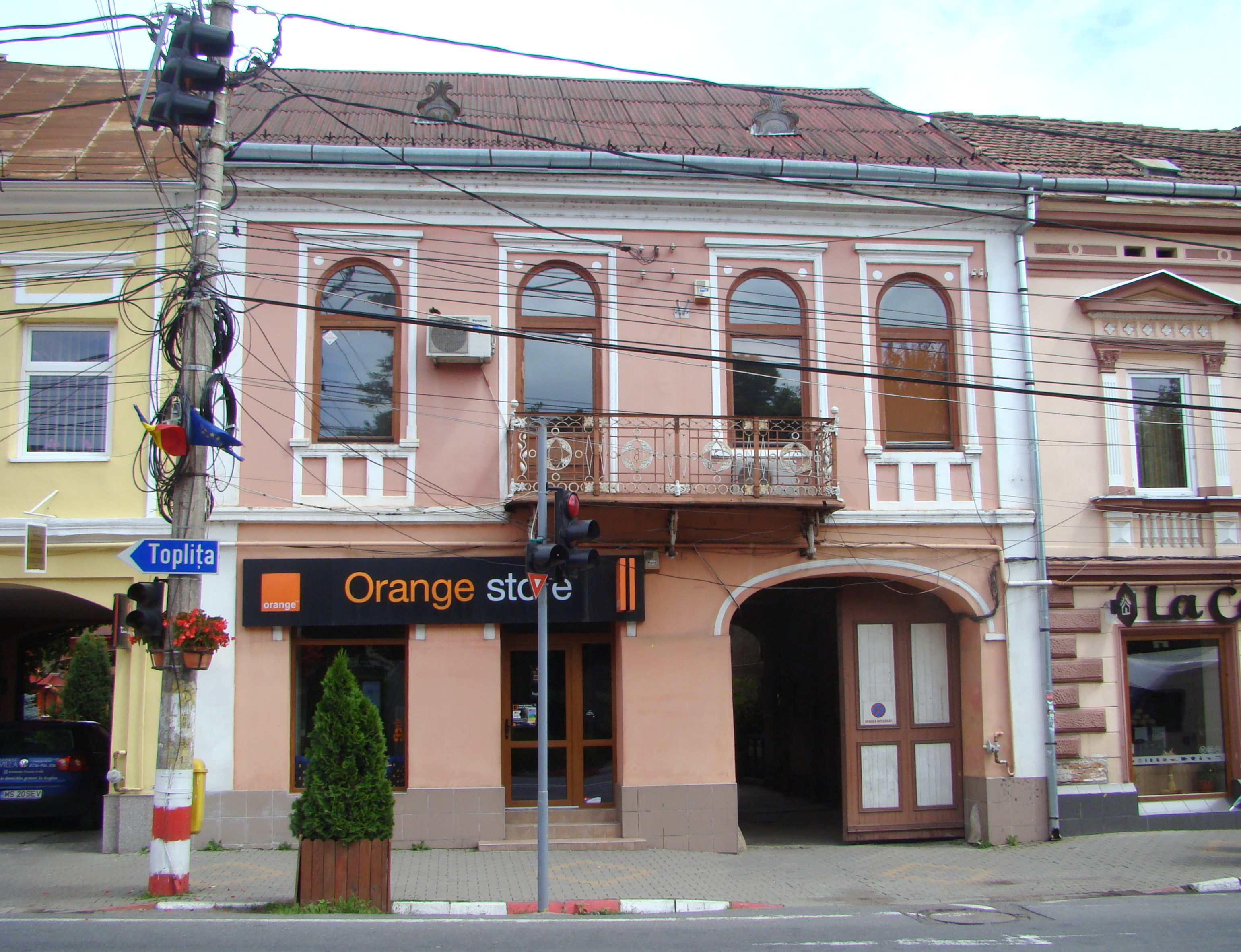 House, historic monument, in Reghin, Petru Maior square, nr.35